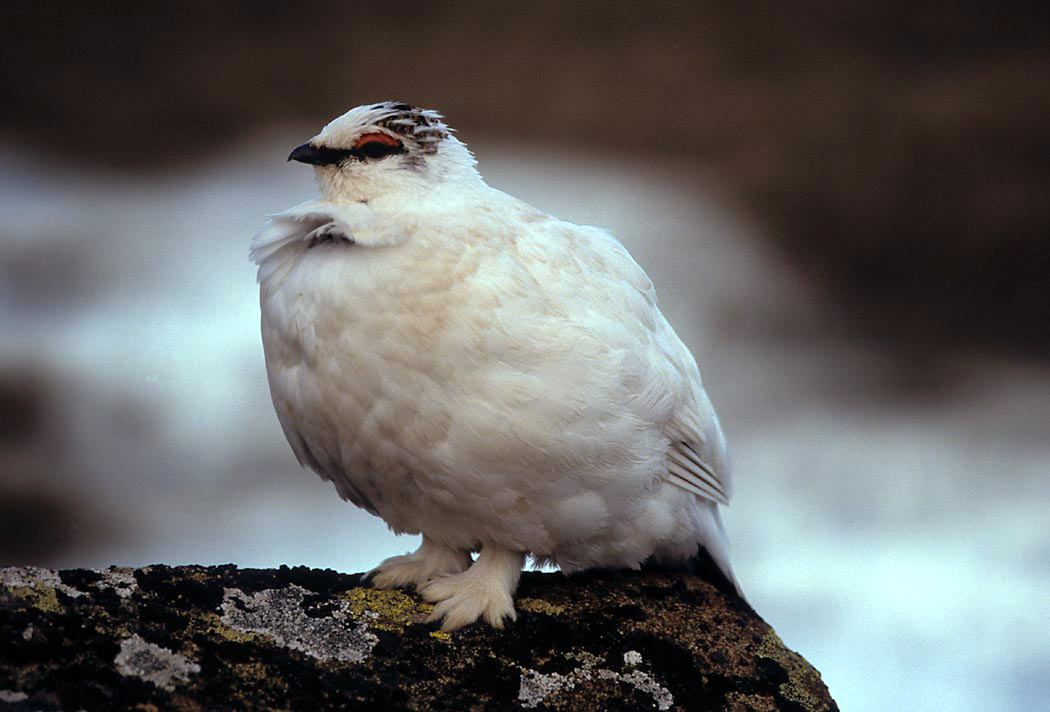 Rock Ptarmigan (Lagopus muta) in winter plumage, Alaska